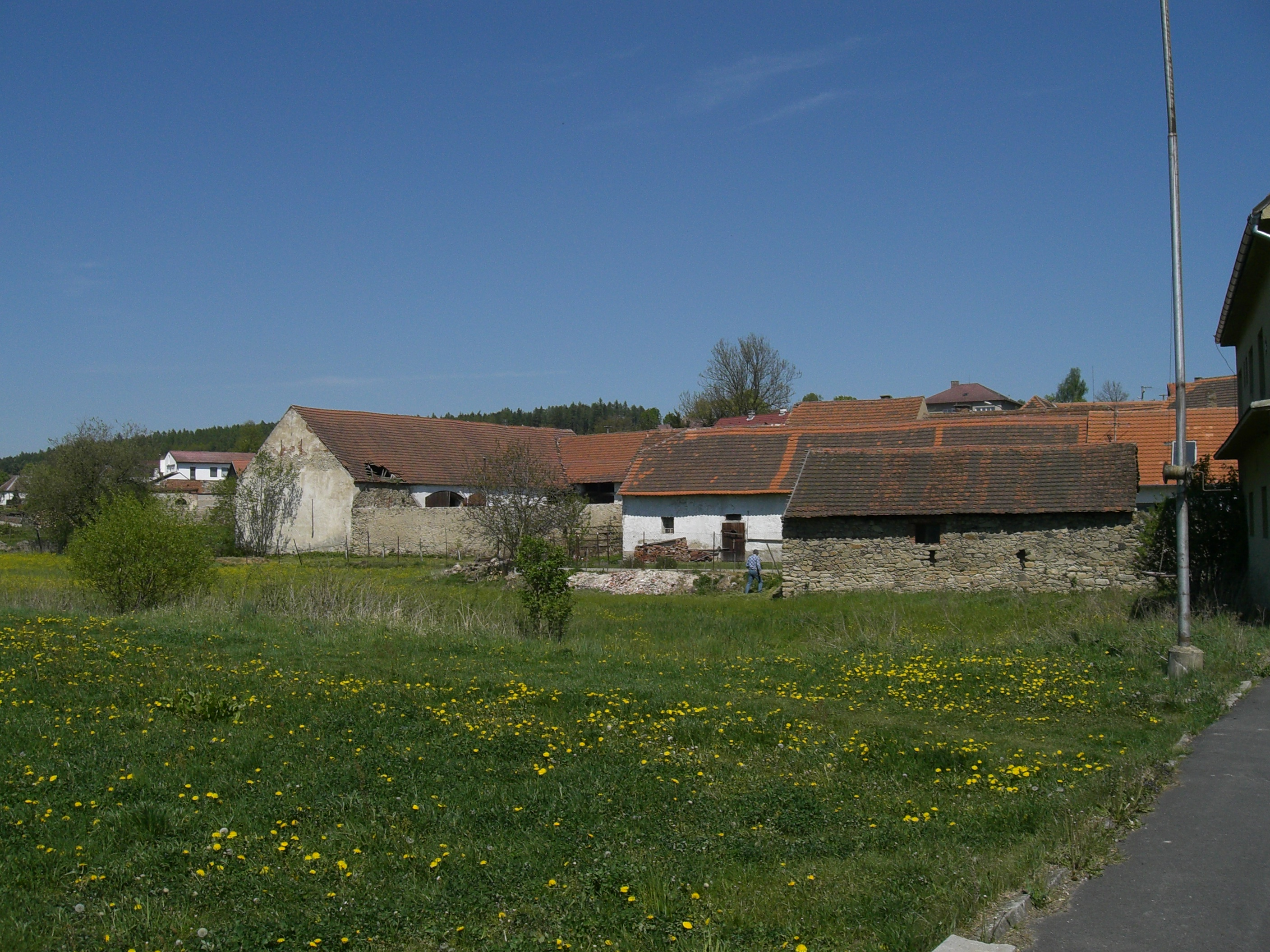 Kluky village in Písek district, Czech Republic.